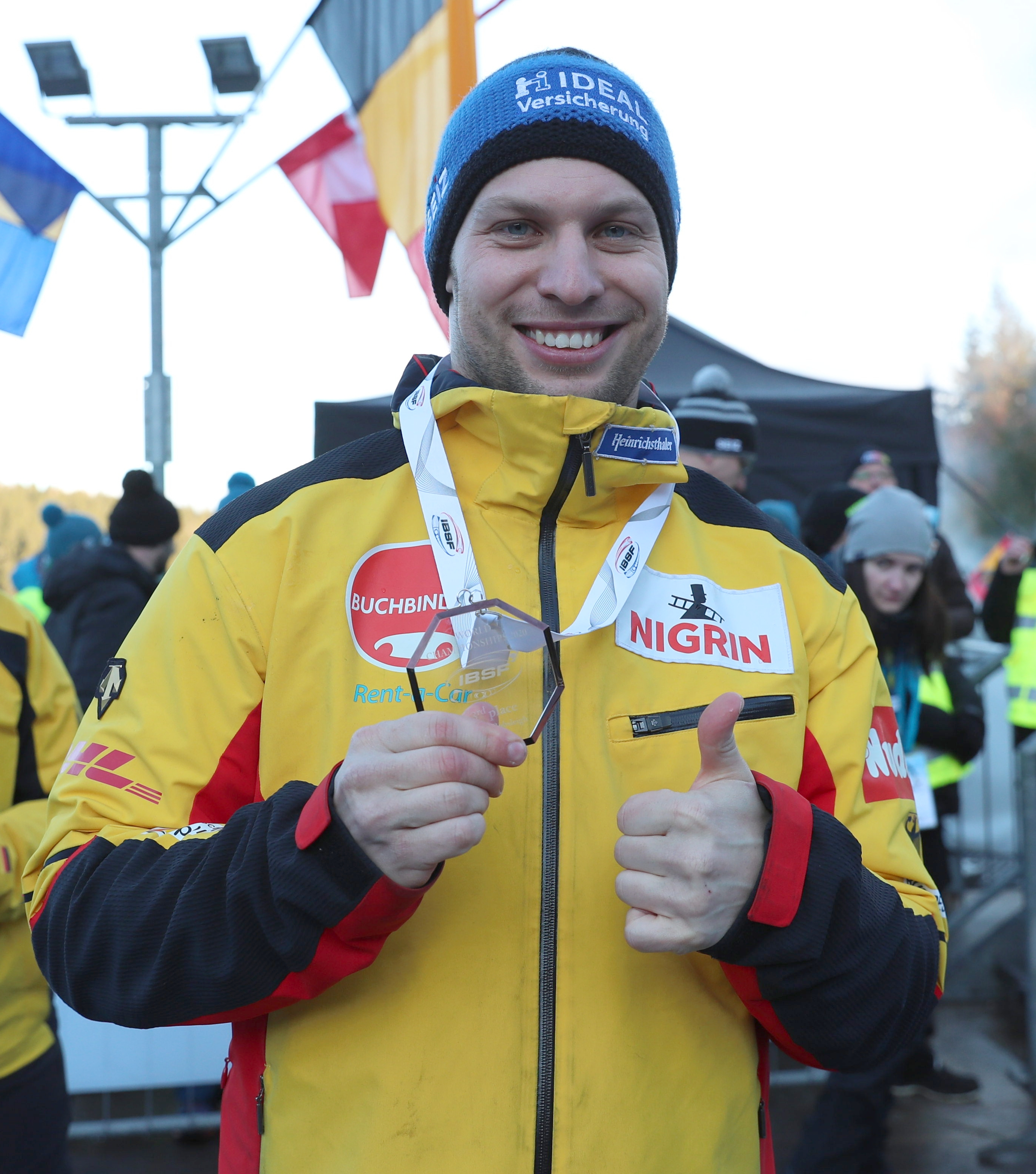 Closing Ceremony of the Bobsleigh and Skeleton World Championships 2020 in Altenberg